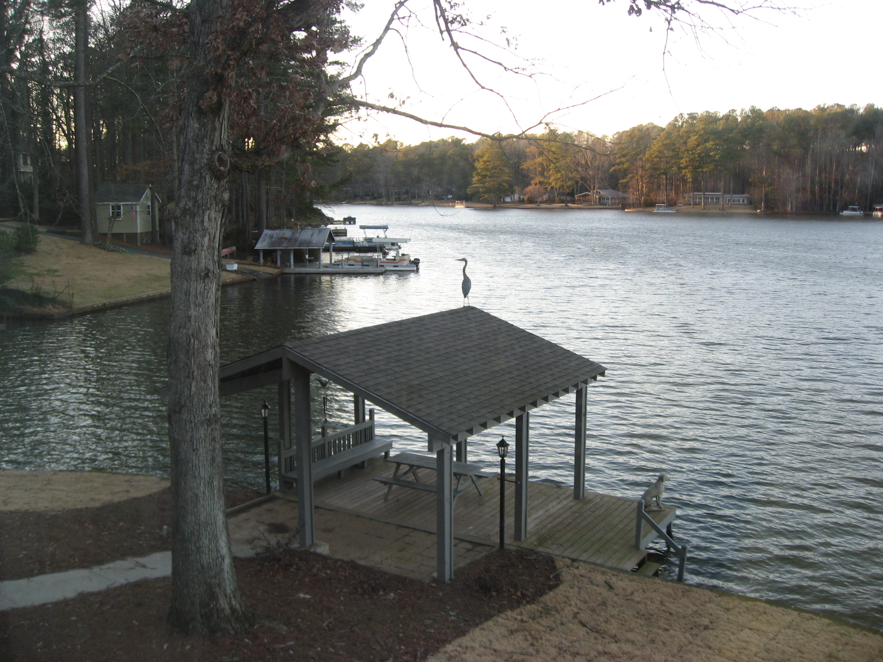 This is a picture of a boat dock on Lake Jodeco in Georgia.